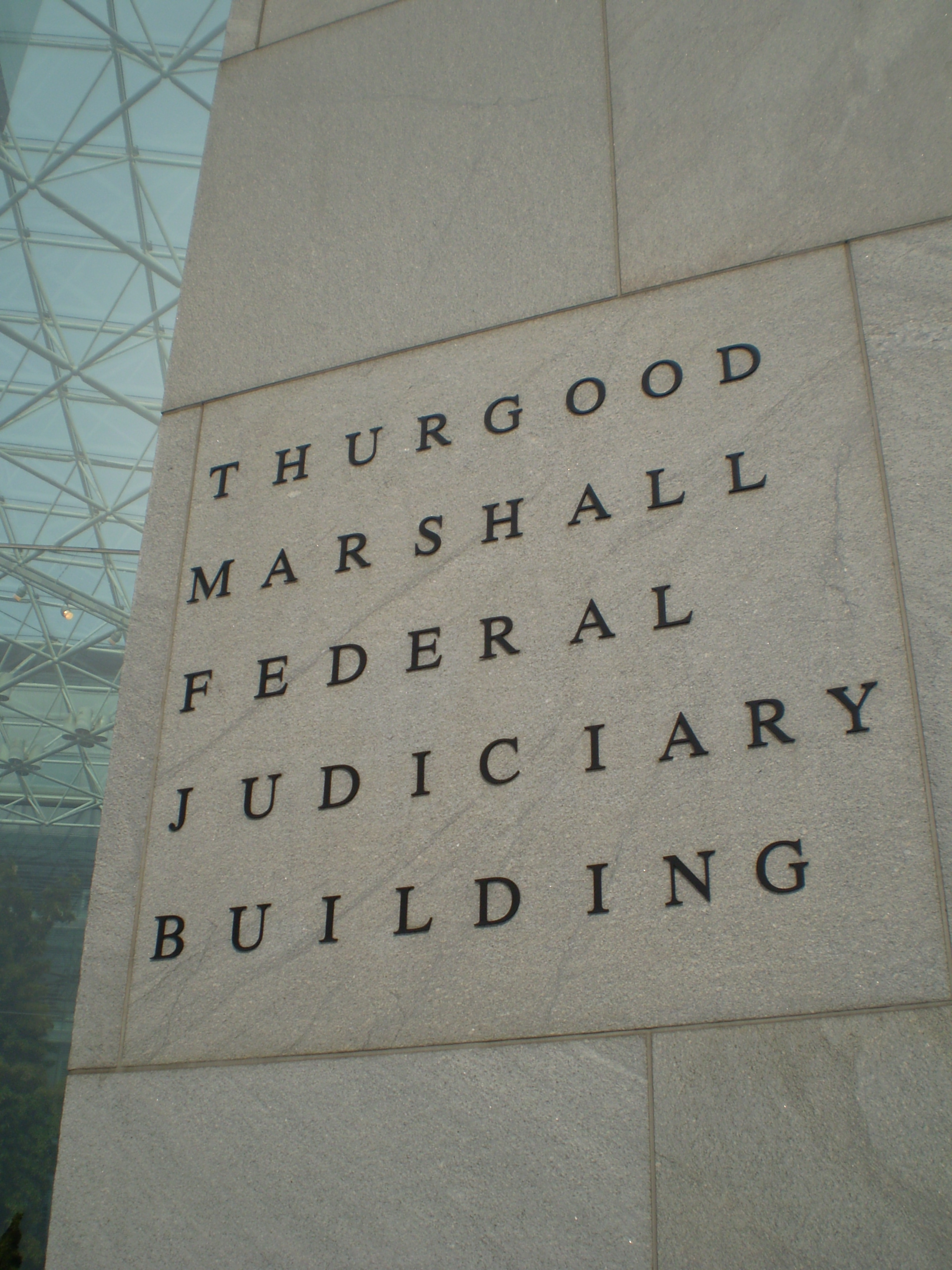 Thurgood Marshall Federal Judiciary Building.